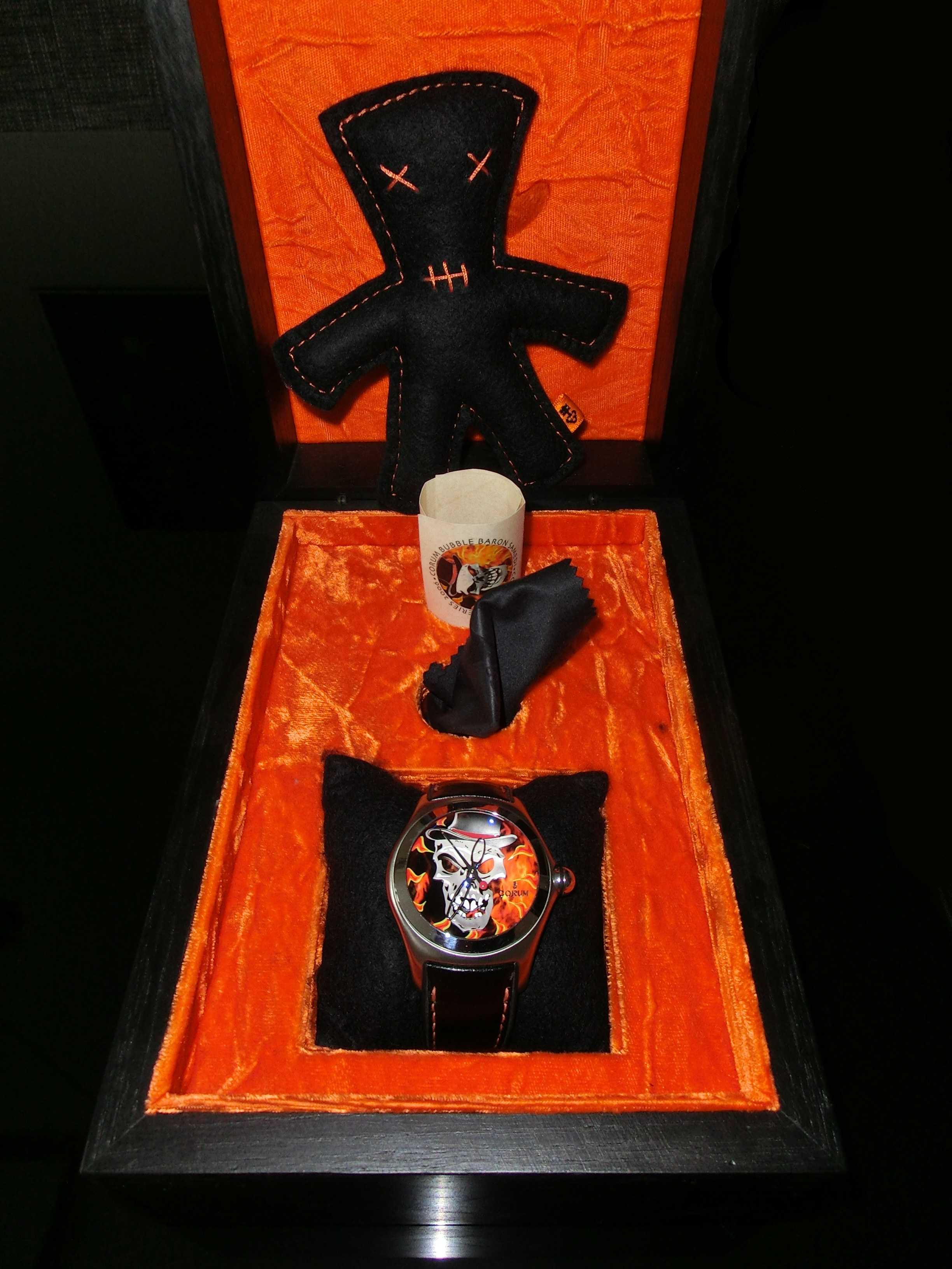 Corum Bubble "Baron Samedi" in original box.